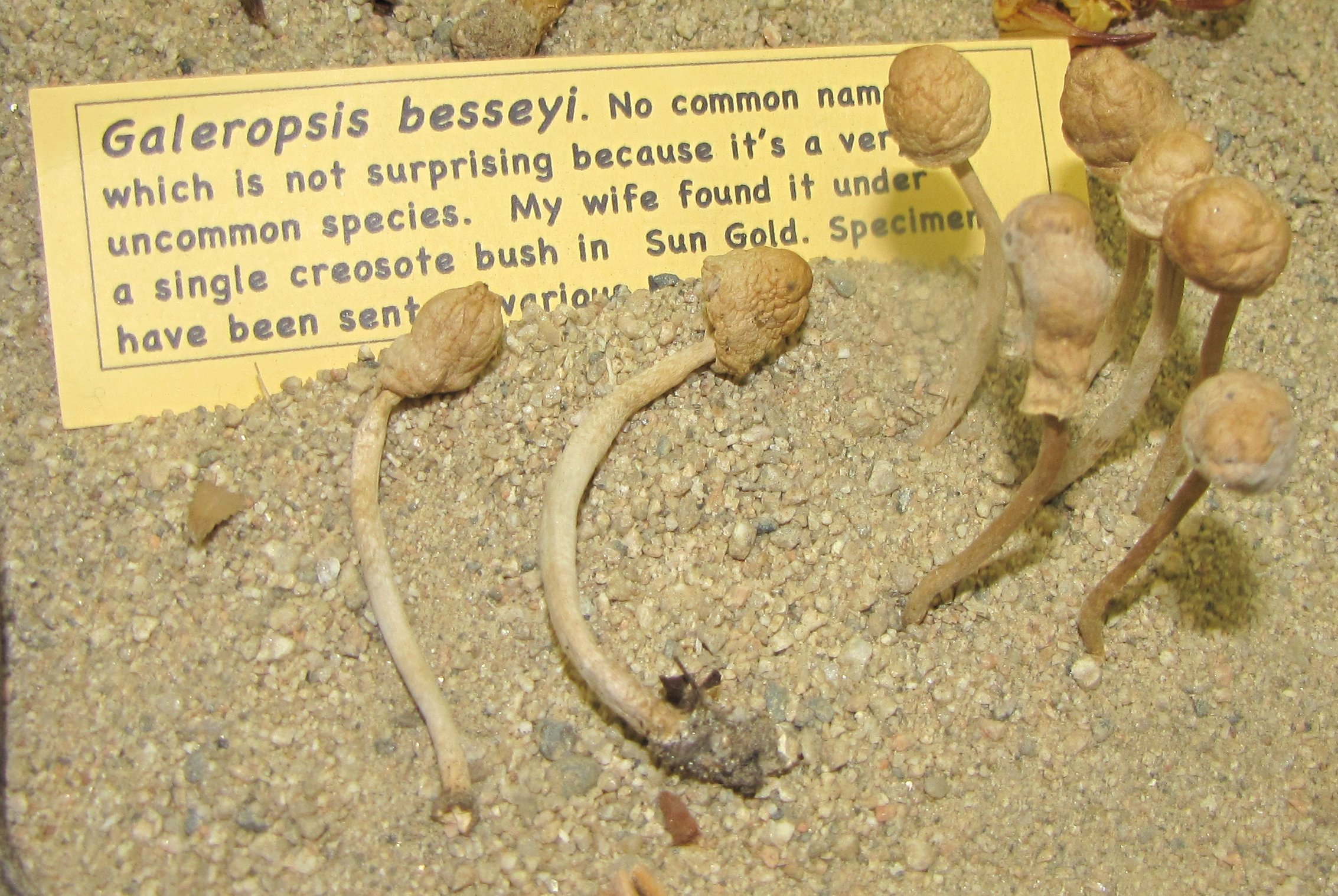 The fungus Galeropsis besseyi (Peck) R. Heim ex Pilát. Specimens photographed at the SDMS Fungus Fair in San Diego, San Diego Co., California, USA.